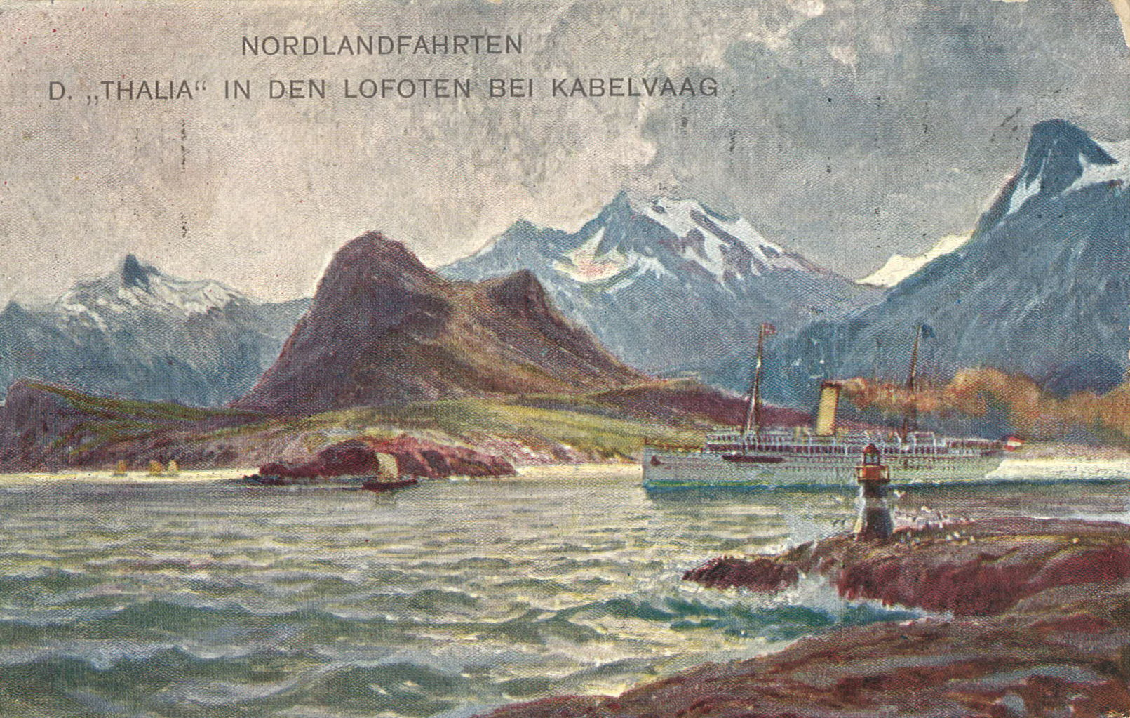 Picture postcard with SS Thalia in the Lofoten (by Alexander Kircher), stamped Tromsö 1912